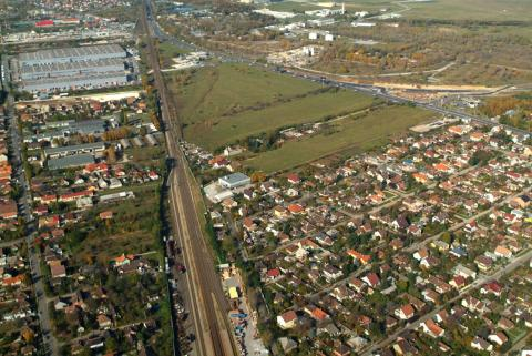 Vecsés, Hungary, aerialphotgraphy